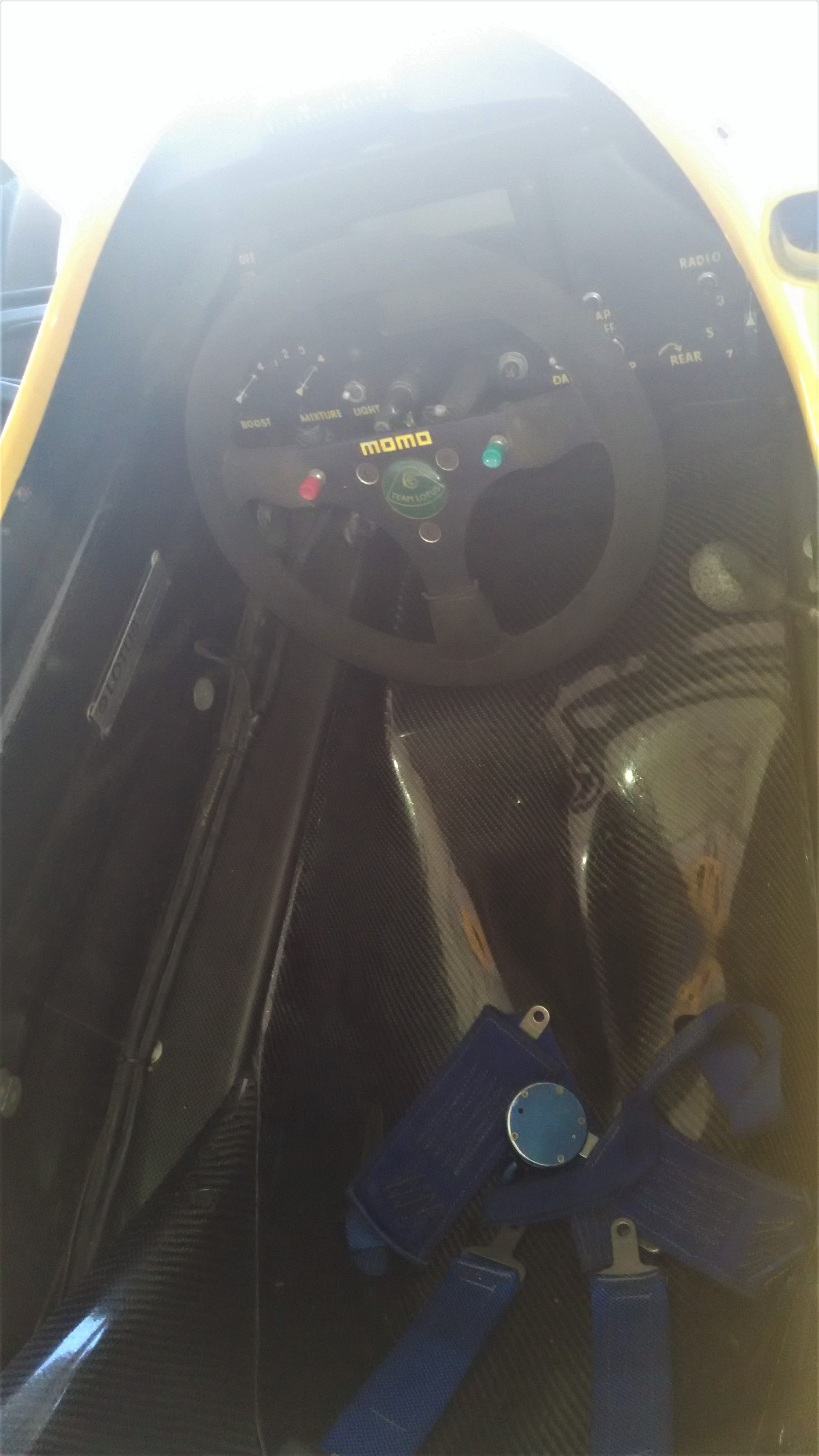 Taken at Adelaide Motorsport Festival 2015.